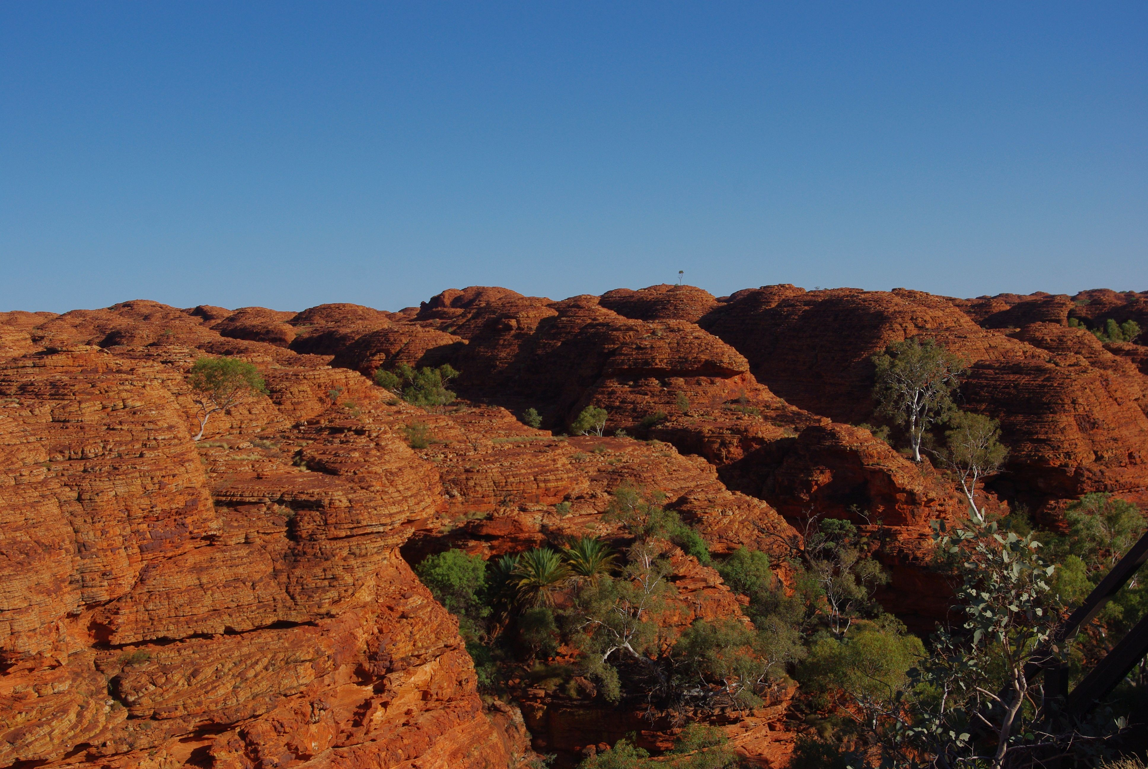 Looking over the rock domes at Watarrka